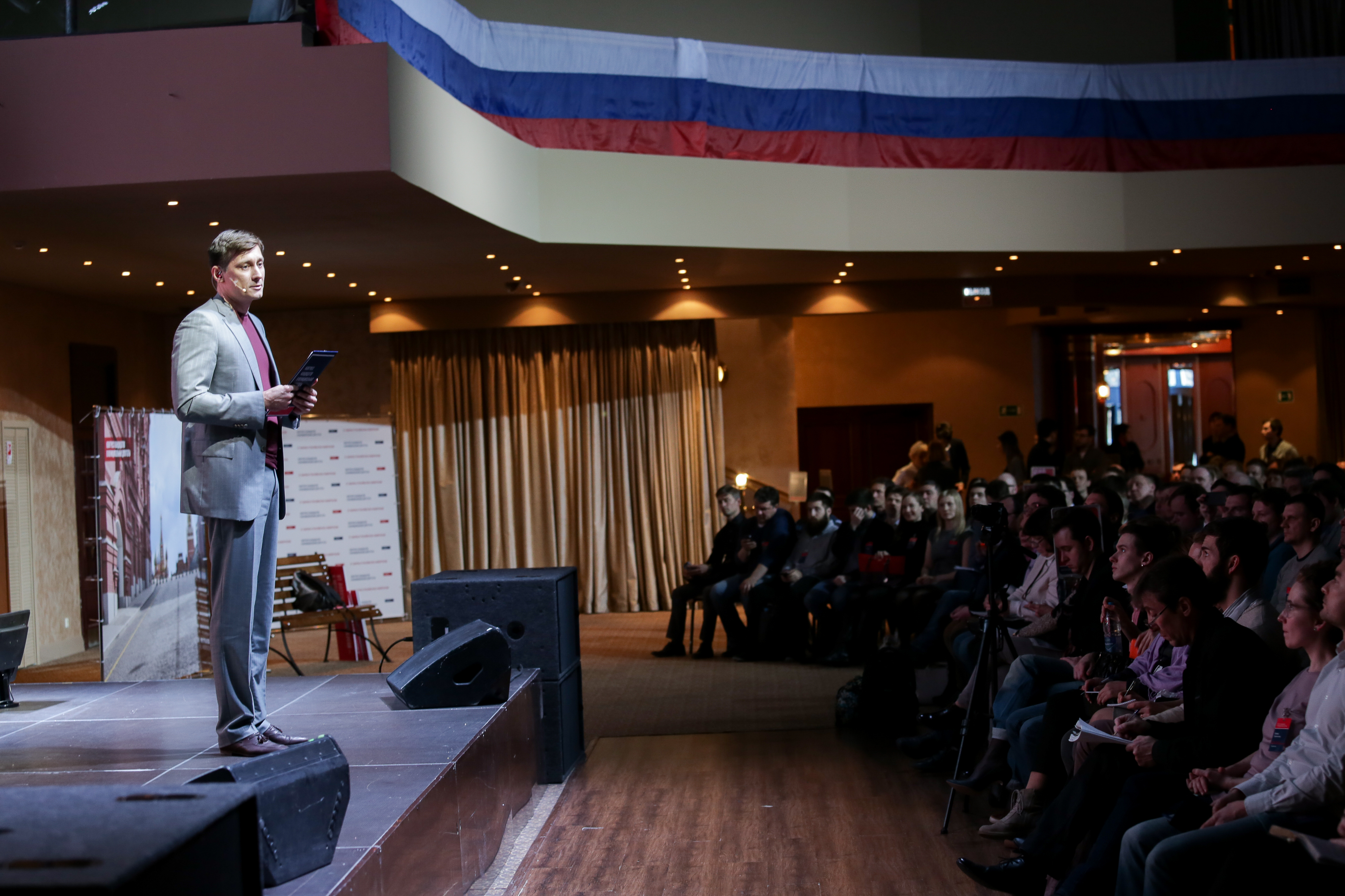 Дмитрий Гудков выступает перед кандидатами в депутаты на конгрессе «Объединённых демократов»